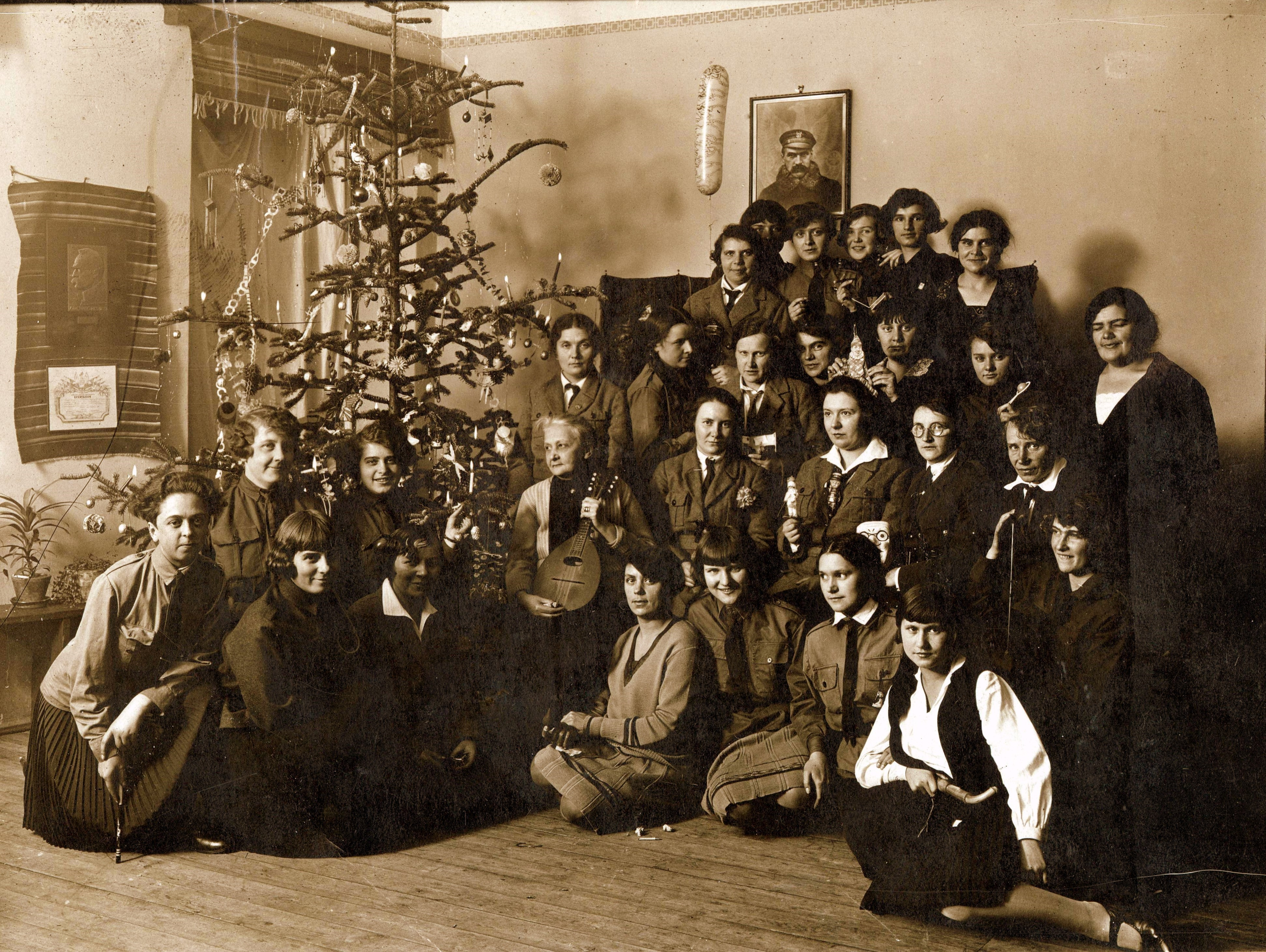 Christmas evening party of Women Military Training Movement in Poland, Warsaw, ca 1935